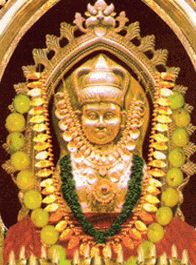 its idol of the azhikulangara bhagavathy